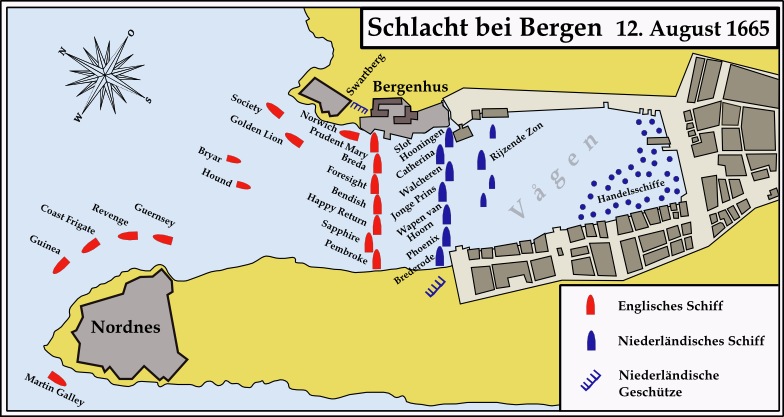 Map of the Battle in the Bay of Bergen (Norway), August 12th, 1665 (German Version)